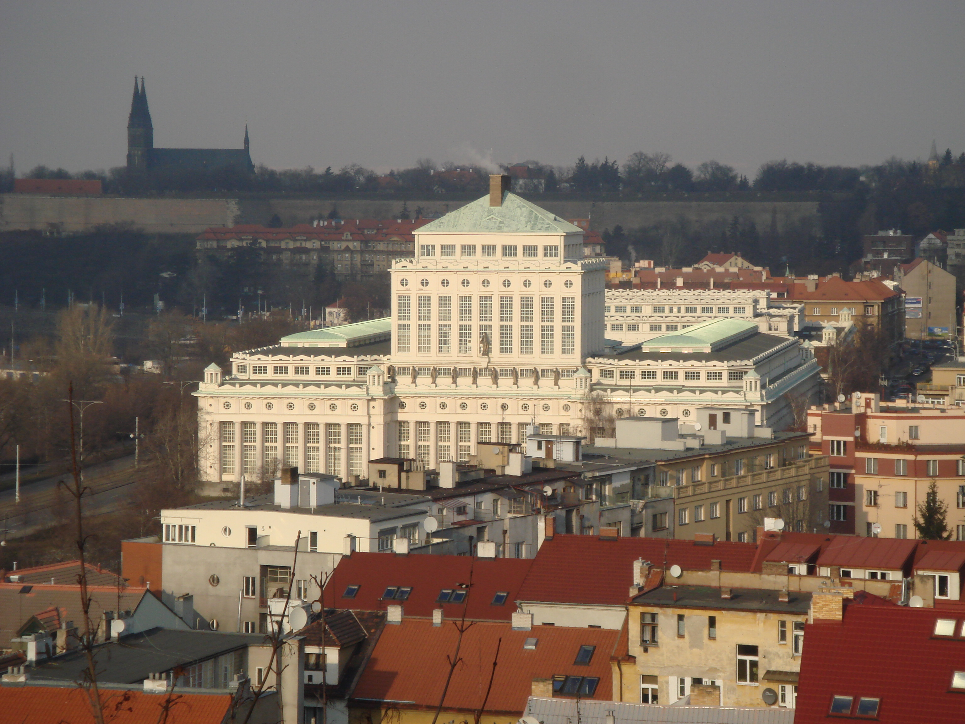 The Podolská vodárna (Podolí waterworks) building (Prague, Czech Republic).